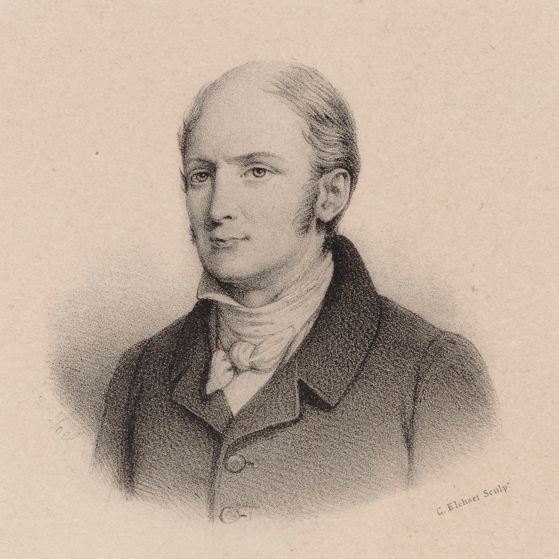 Depicted person: Alexandre-Étienne Choron